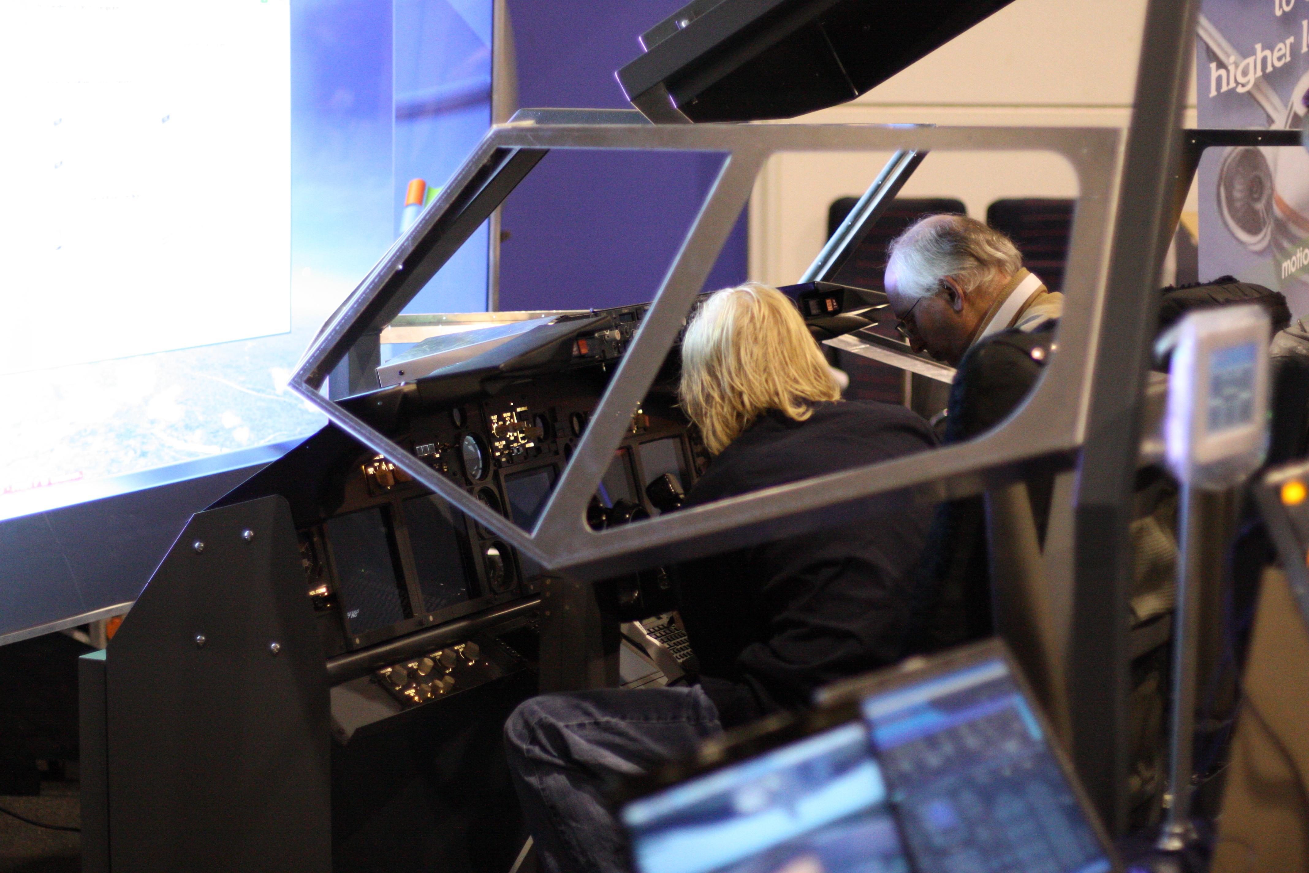 Lelystad Flugsimulatorwochenende, bei Amsterdam, November 2009; Flight Simulation conference at Aviodrome Lelystad